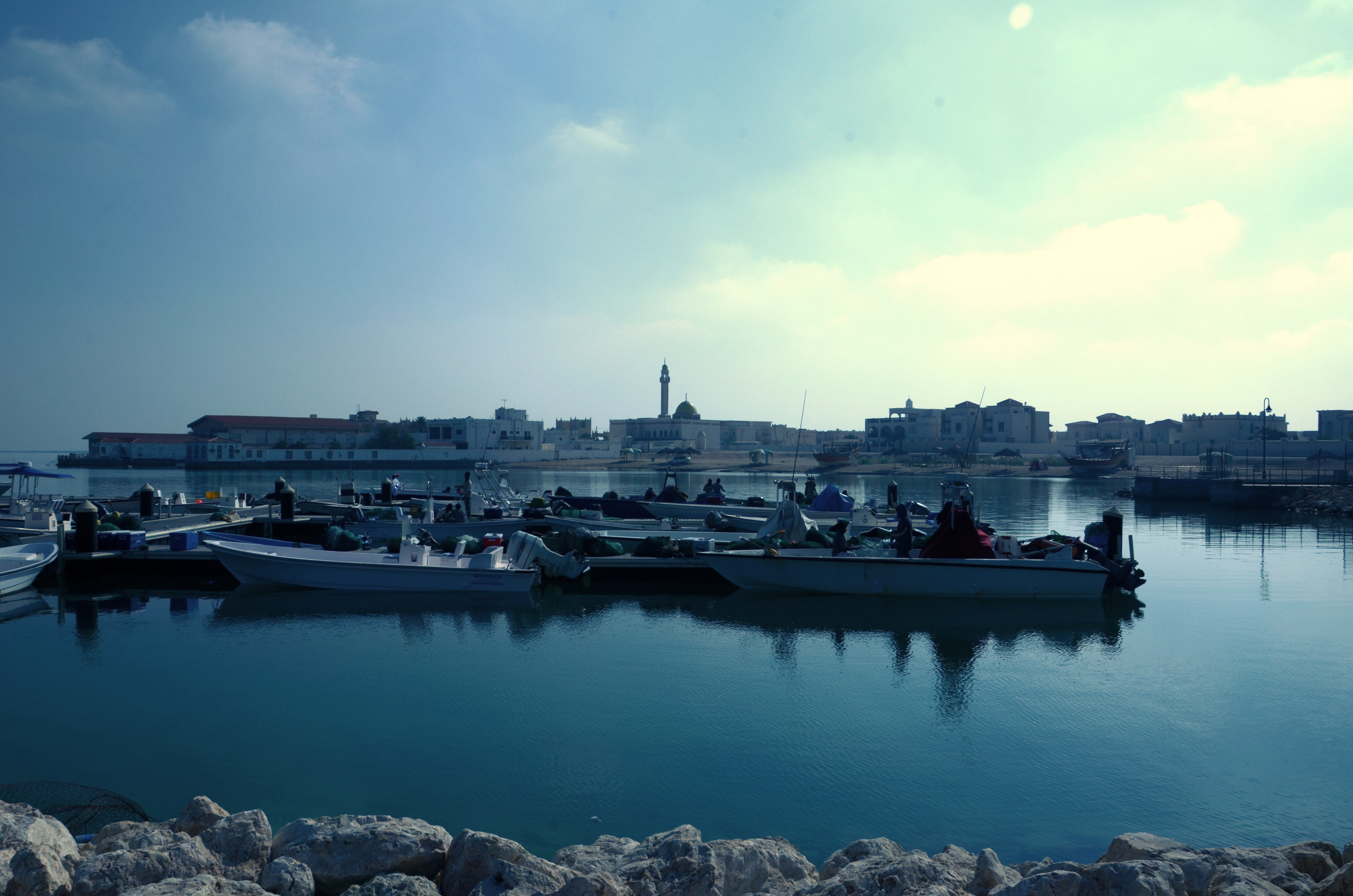 A look towards the Corniche of Al Khor township, Qatar.